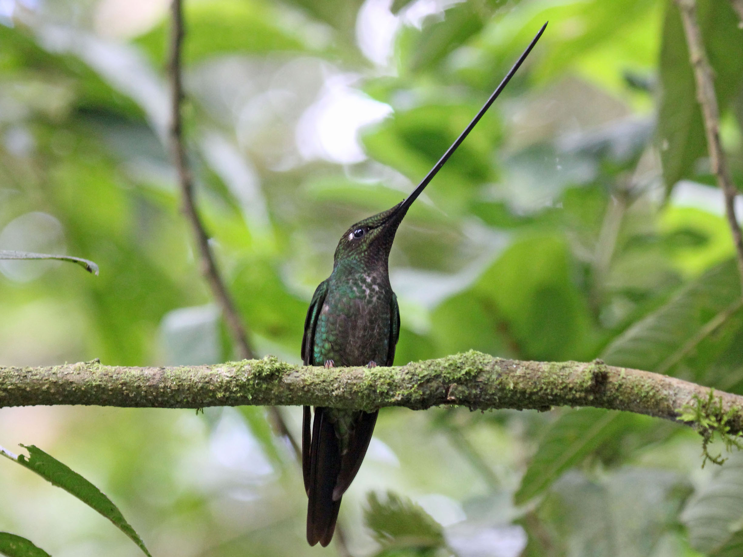 Sword-billed Hummingbird (Ensifera ensifera) - Guango Lodge, Ecuador